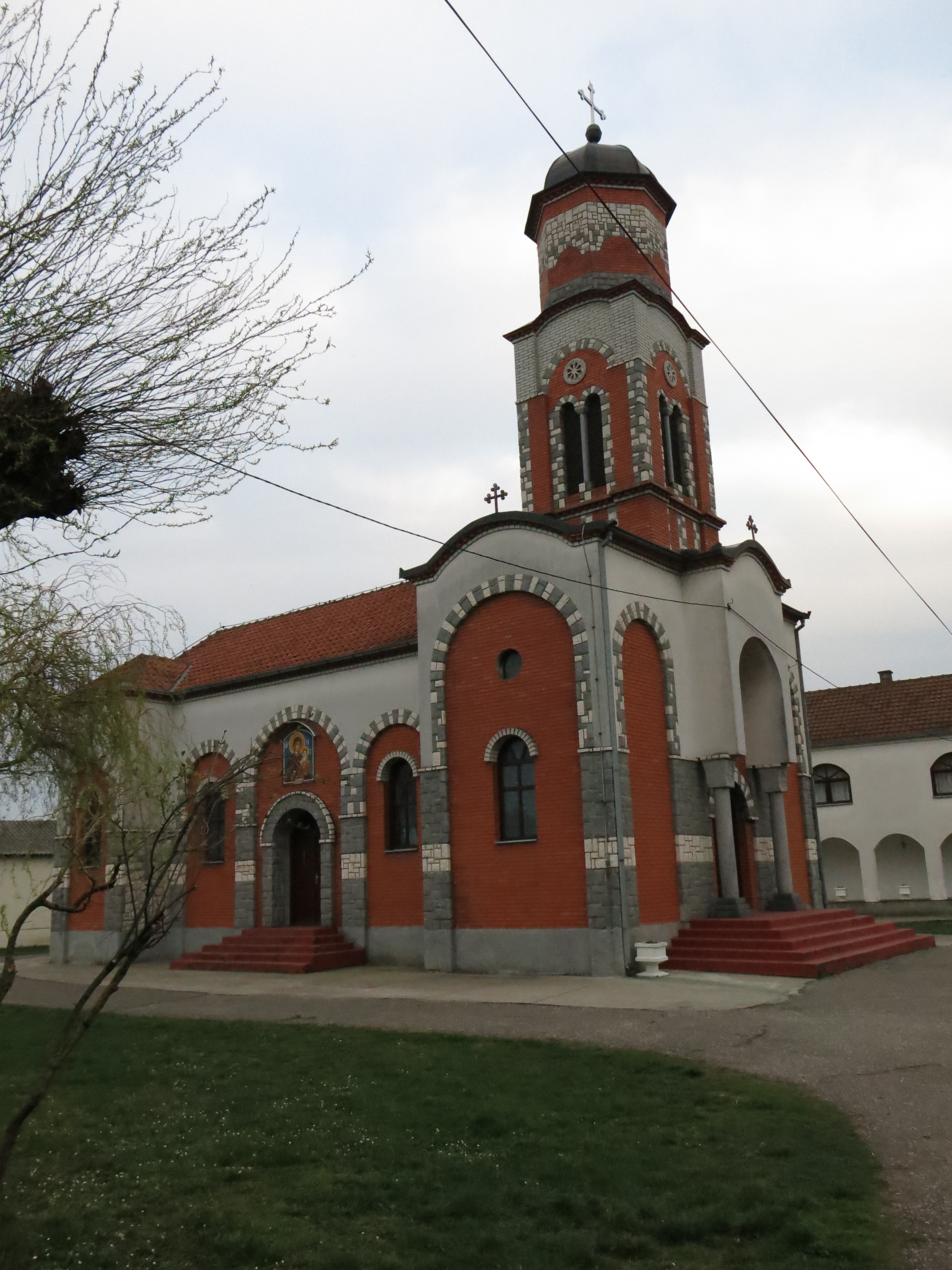 Ribari, Church of Saint Peter and Paul